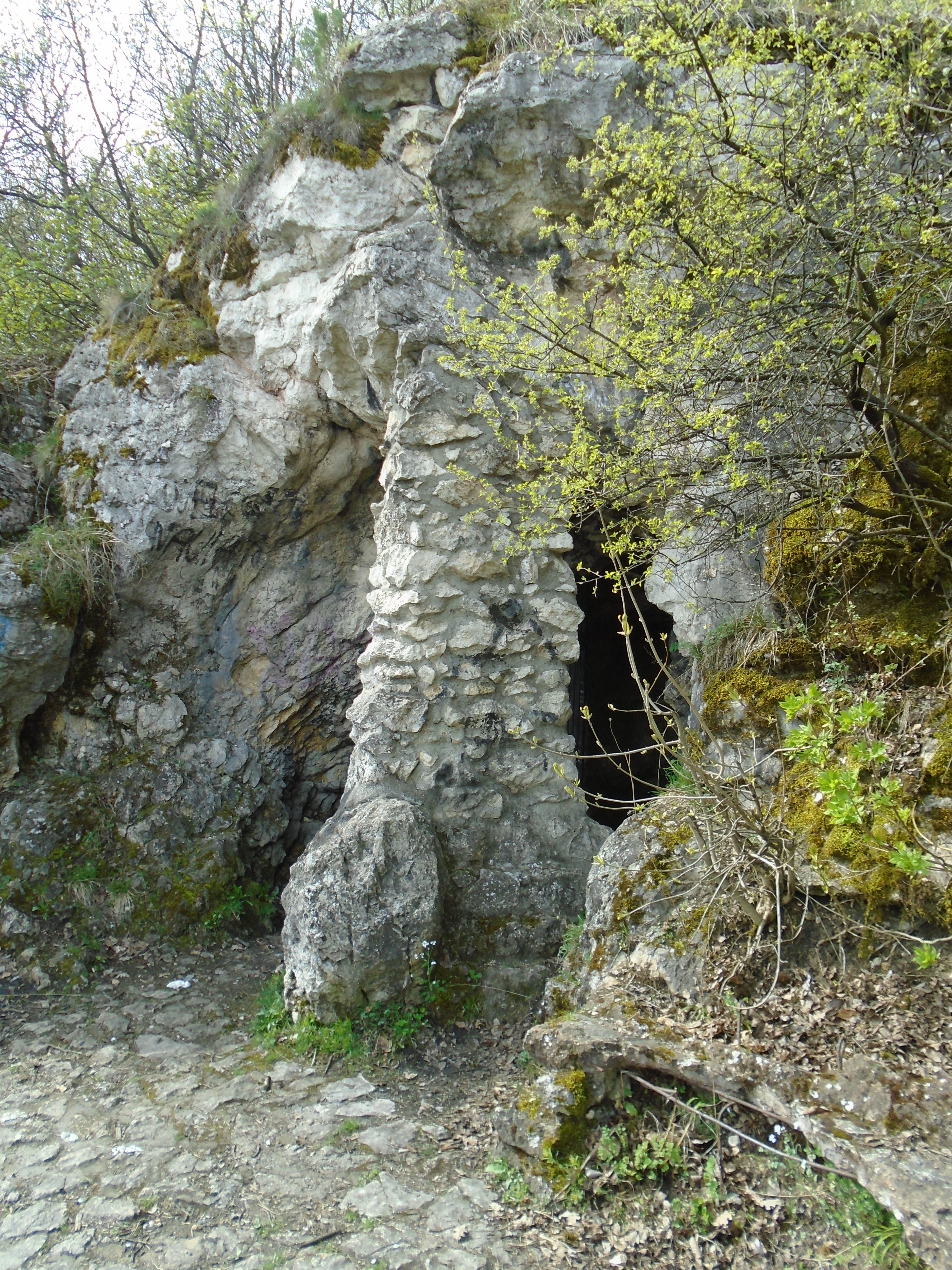 Tábor-hegyi Cave foreground.